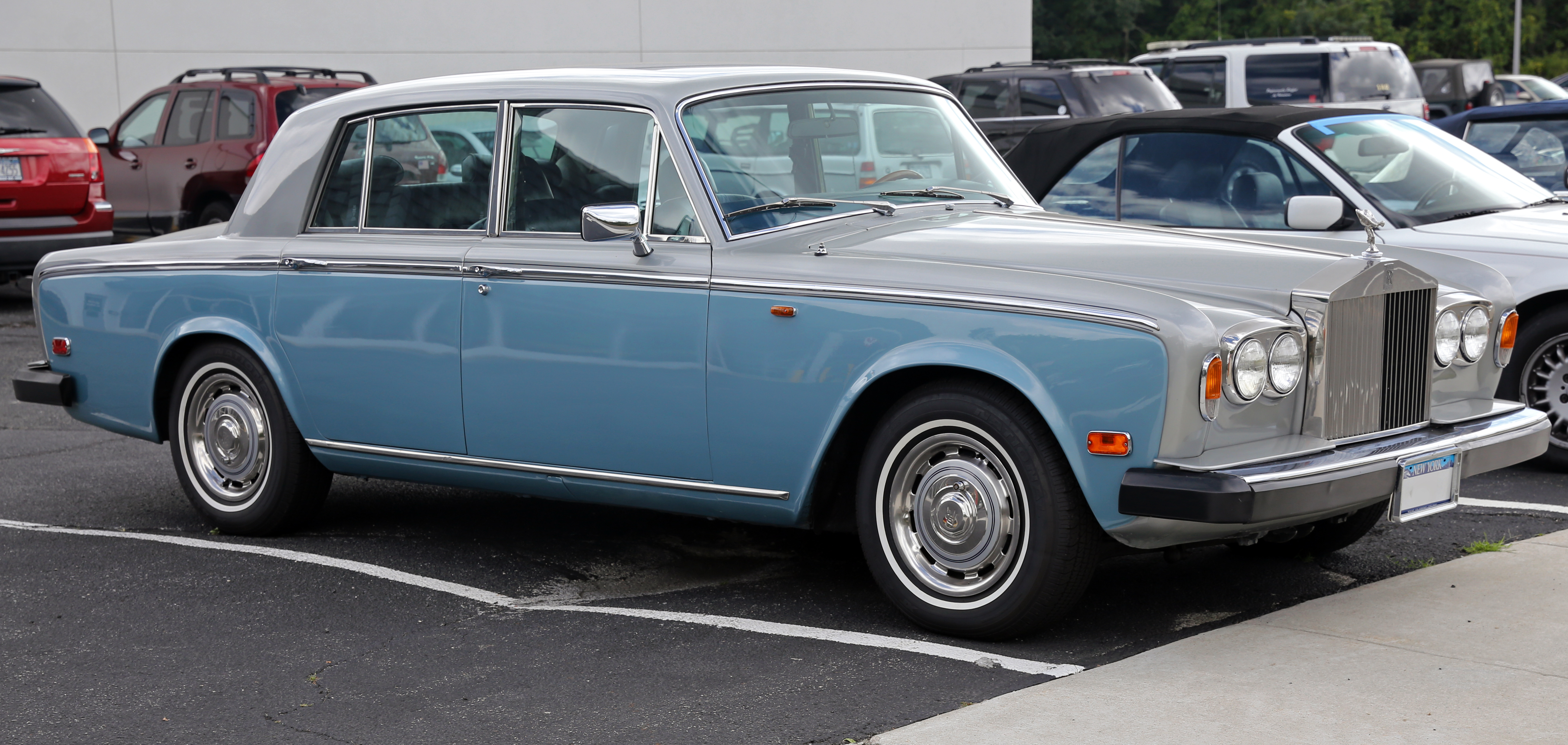 A 1980 Rolls-Royce Silver Shadow II, US market version. Lovely colour combination.